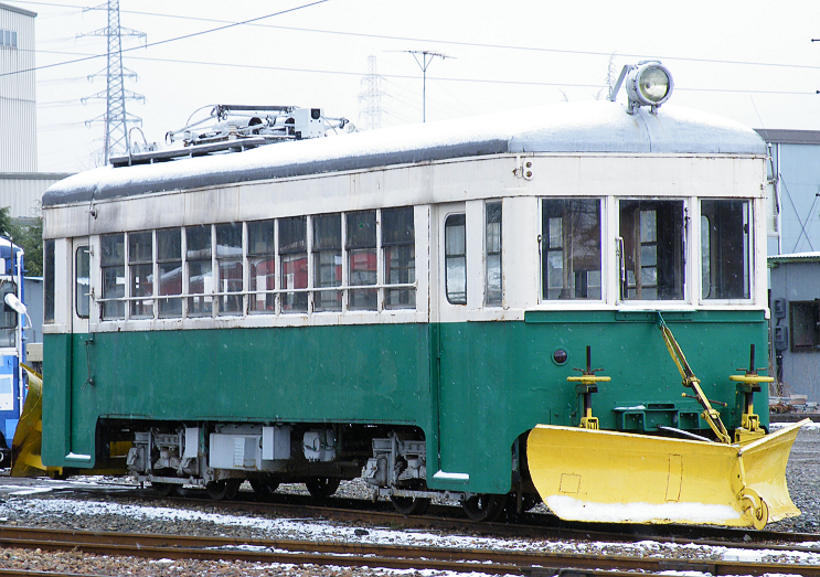 Type 5010(No.5022) of Manyo line, Noumachi, Takaoka city, Japan.